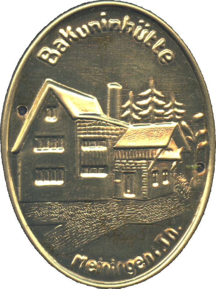 alpenstock badge Bakuninhütte, Meiningen, Thüringen